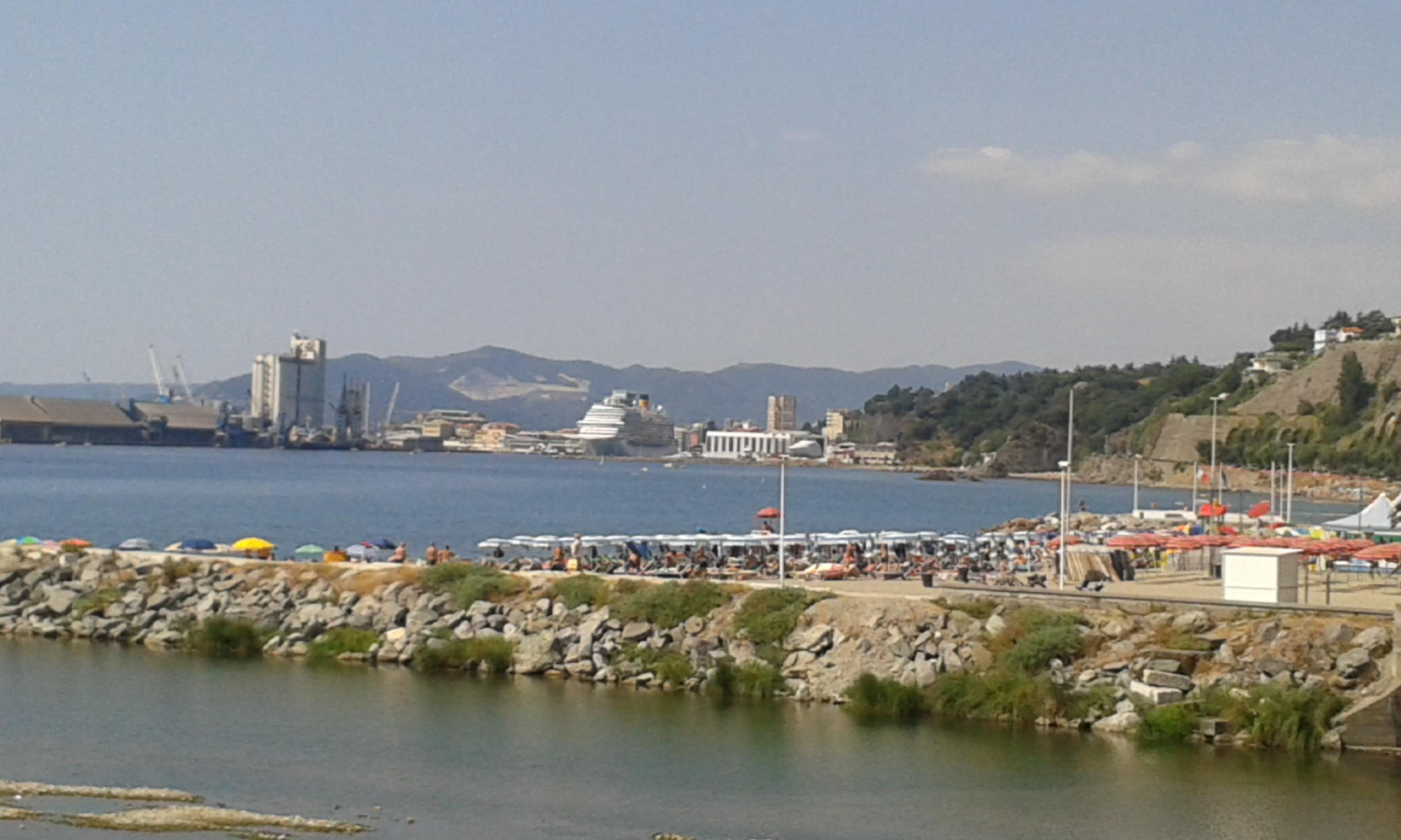 The Port of Savona view from Albissola Superiore ITALY